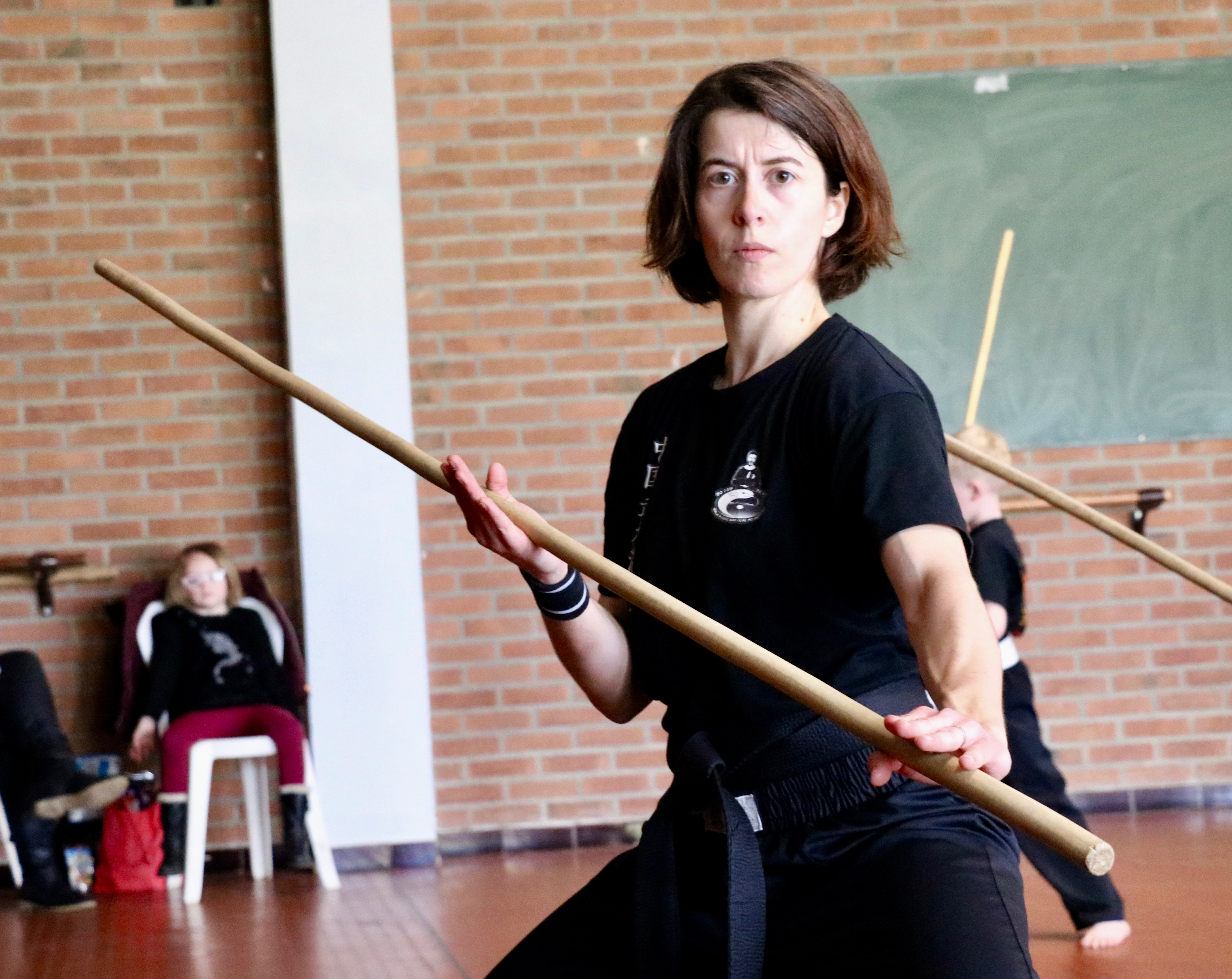 The Long Stick, a weapon of Mansuria Kung Fu.